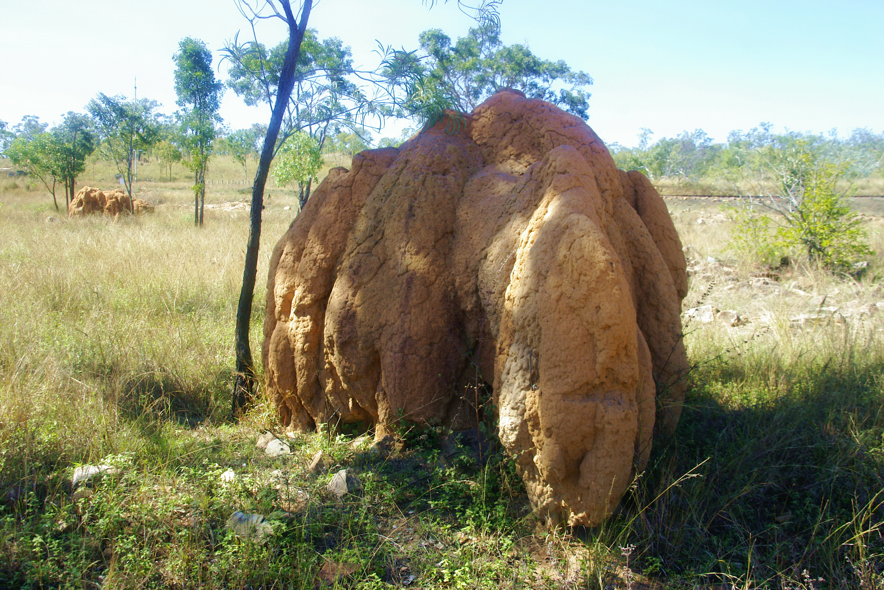 Termite mound in Queensland / Australia, between Almaden and Petford. Height ca. 3m.